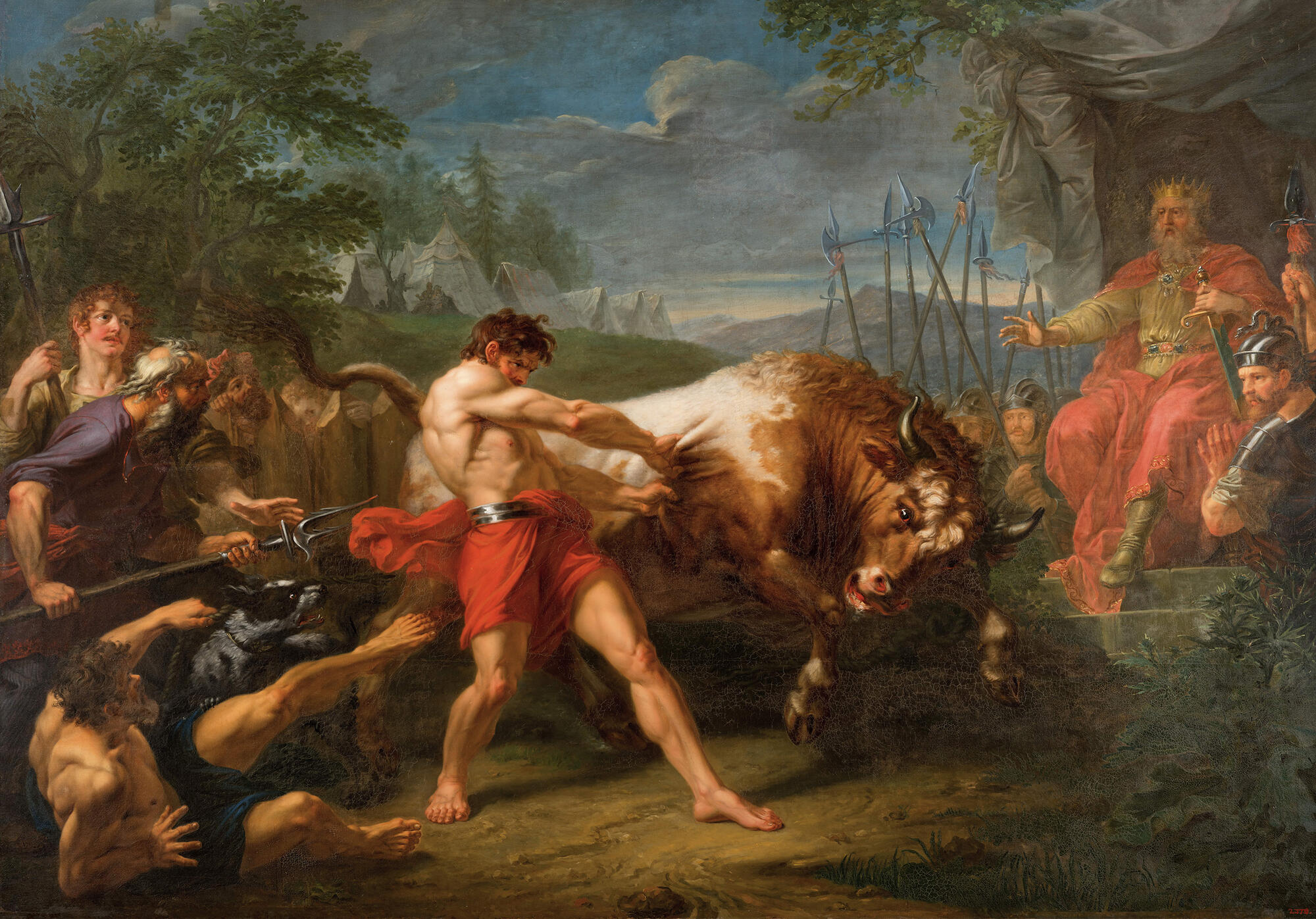 The Trial of Strength of Yan Usmar